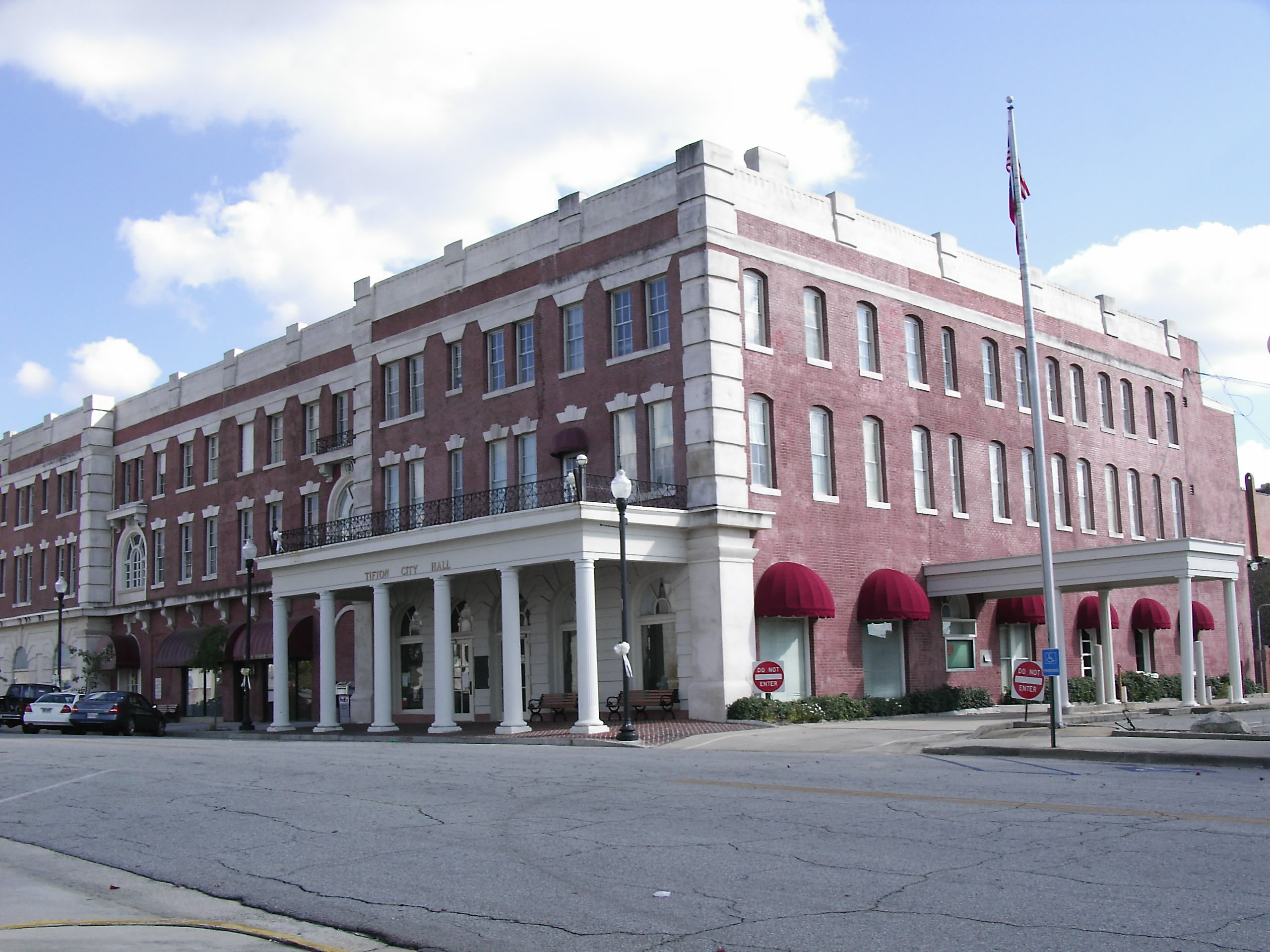 Former Tifton City Hall, 130 1st St. E., Tifton, Tift County, Georgia USA 31794 previously the Myon Hotel.